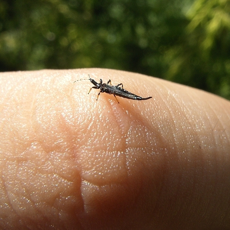 カキクダアザミウマ Ponticulothrips diospyrosi ? a kind of thrips Copyright OpenCage